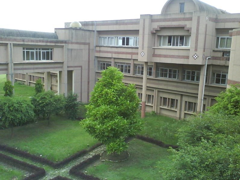 This snap was taken by our batchmates.